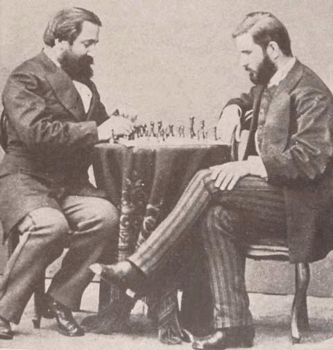 Ilia Chavchavadze and Ivane Machabeli playing chess, Saint Petersburg